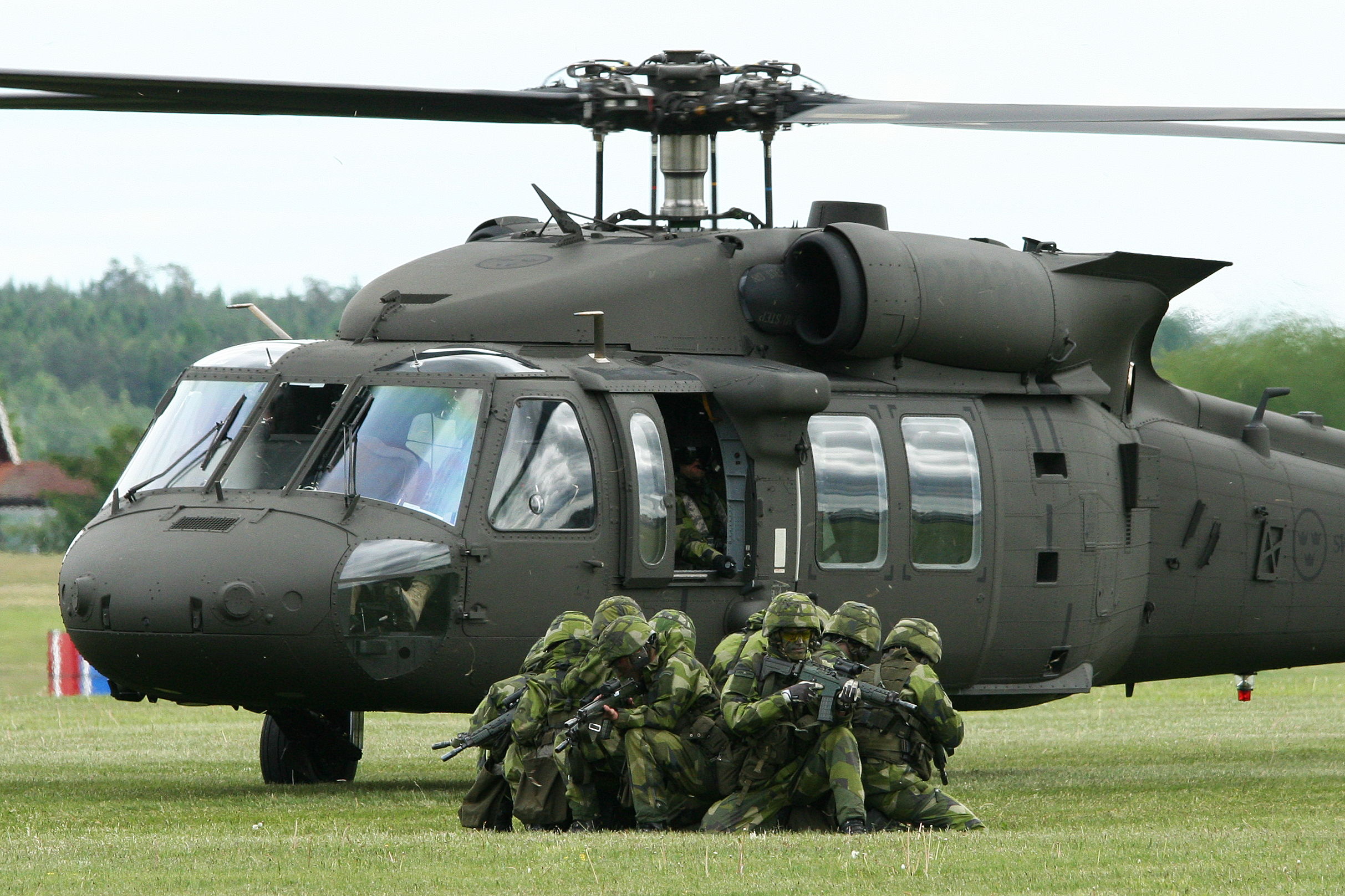 'Don't let anyone near the helicopter!!' Part of the tactical demo using the based helicopters of 2Hkpskv. 2012 Malmen Airshow, Sweden. 03-06-2012